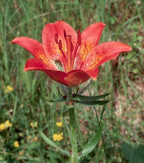 Lilium bulbiferum var. bulbiferum taken in Italy, Lago di Garda, Monte Baldo, Nago Meadows.